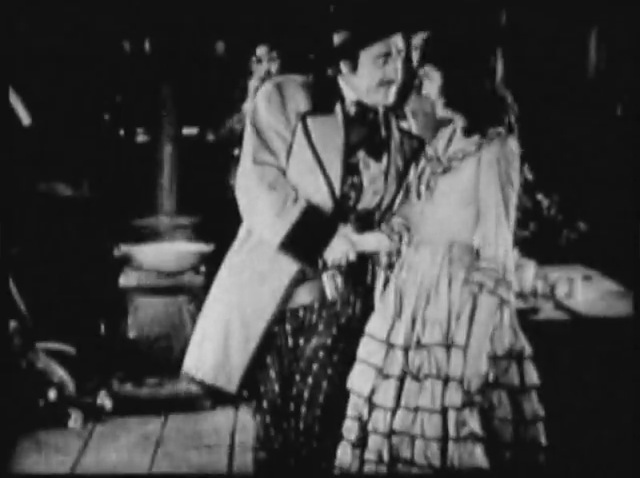 Walter Long and Carol Dempster in Scarlet Days (1919).